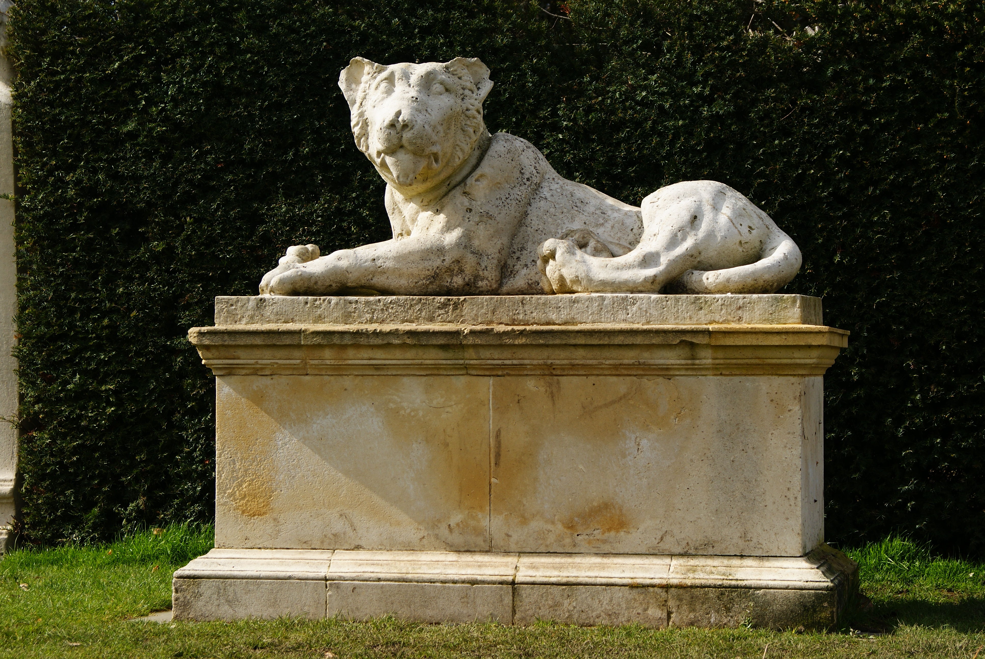 Lion in Chiswick House Gardens